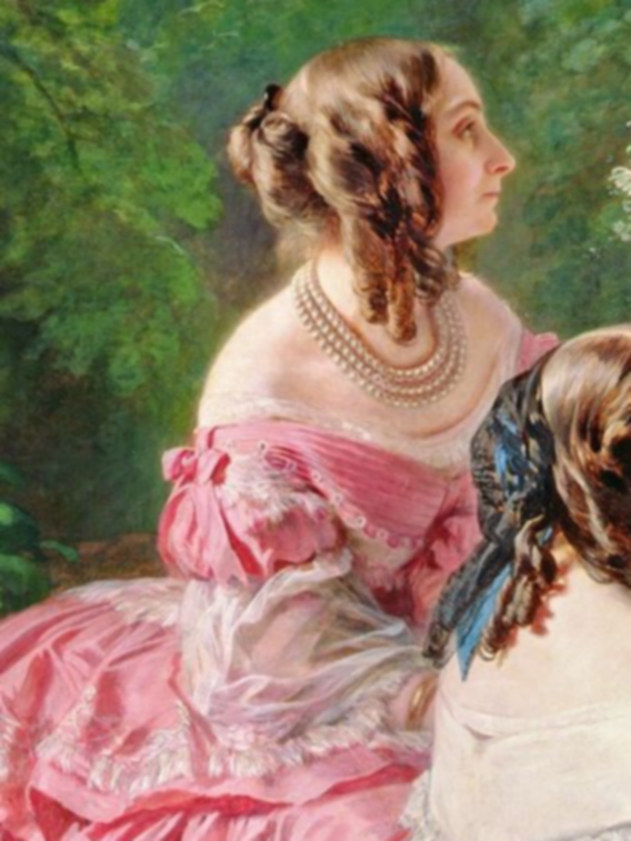 Portrait of Anne d'Essling, by Franz Xaver Winterhalter (detail of "The Empress Eugenie Surrounded by her Ladies in Waiting").